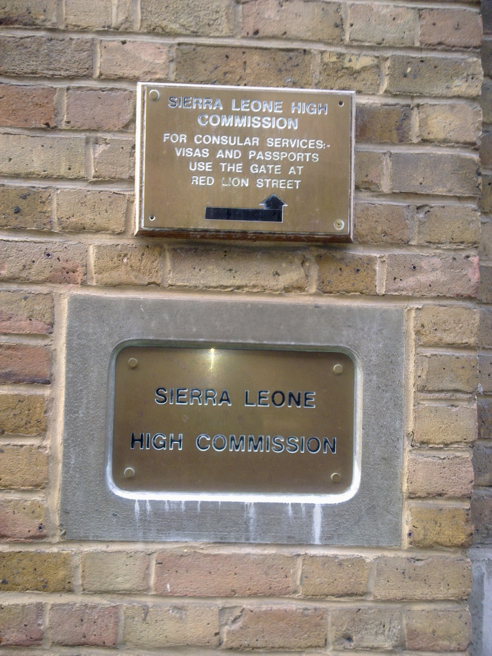 High Commission of Sierra Leone in London 2